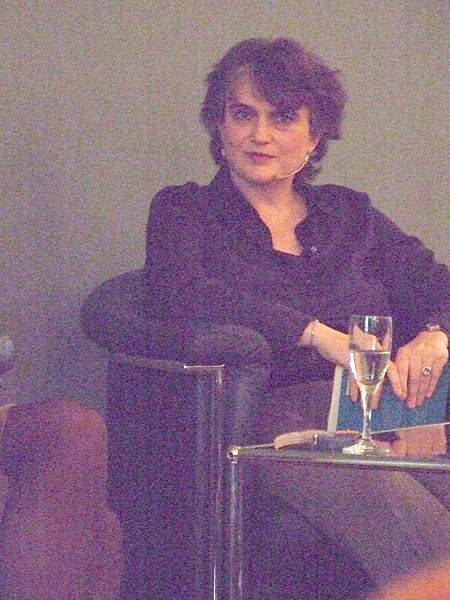 Iris Hanika (German writer and shortlisted author for German Book Prize 2008) at Literaturhaus Frankfurt